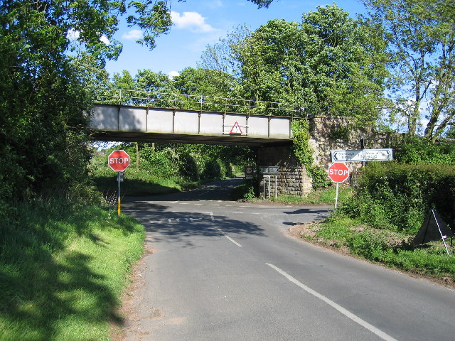 Leek Wootton crossroads. Unusually this crossroads is situated directly under the railway bridge carrying the kenilworth - Leamington Spa main line